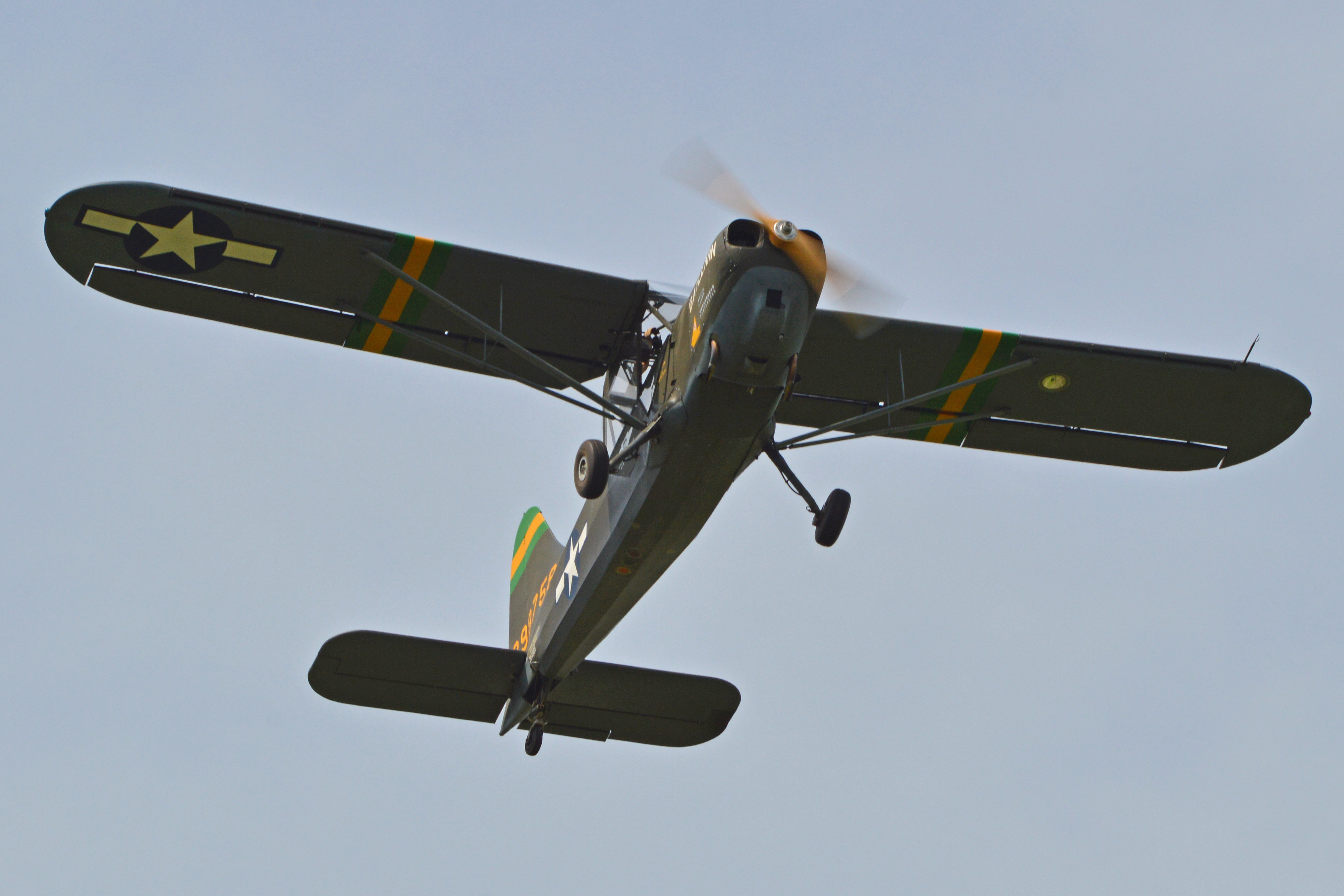 c/n 76-993 Built 1943 Actual US military serial 42-98752, Bureau number 60507 Seen departing to take part in the 2015 Arsenal of Democracy Flyover to celebrate the 70th Anniversary of VE Day and the end of WW2. Culpeper Regional Airport, Virginia, USA 8th May 2015